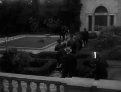 Screenshot taken by me (Icea) from the trailer to the movie Sunset Blvd.